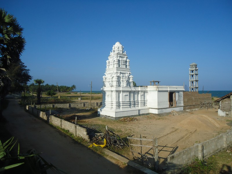 Thambiluvil Sivan Kovil is still under construction after the Tsunami catastrophe 2004